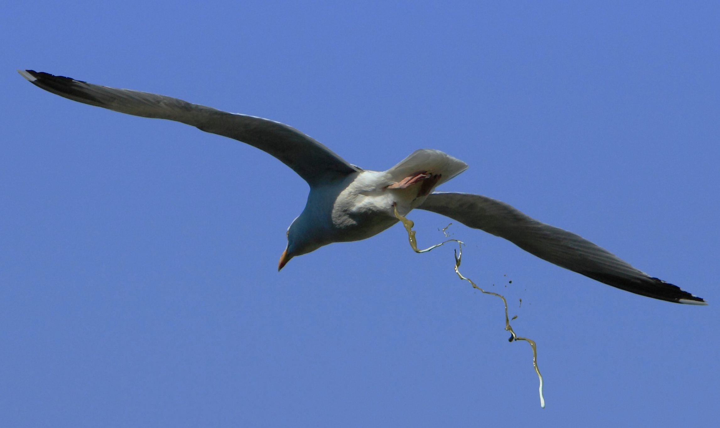 A Herring Gull (Larus argentatus) defecating near to Bréhat island